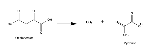 Chemical Drawing of the breakdown of oxaloacetate into carbon dioxide and pyruvate. This reaction is catalyzed by Oxaloacetate decarboxylase.